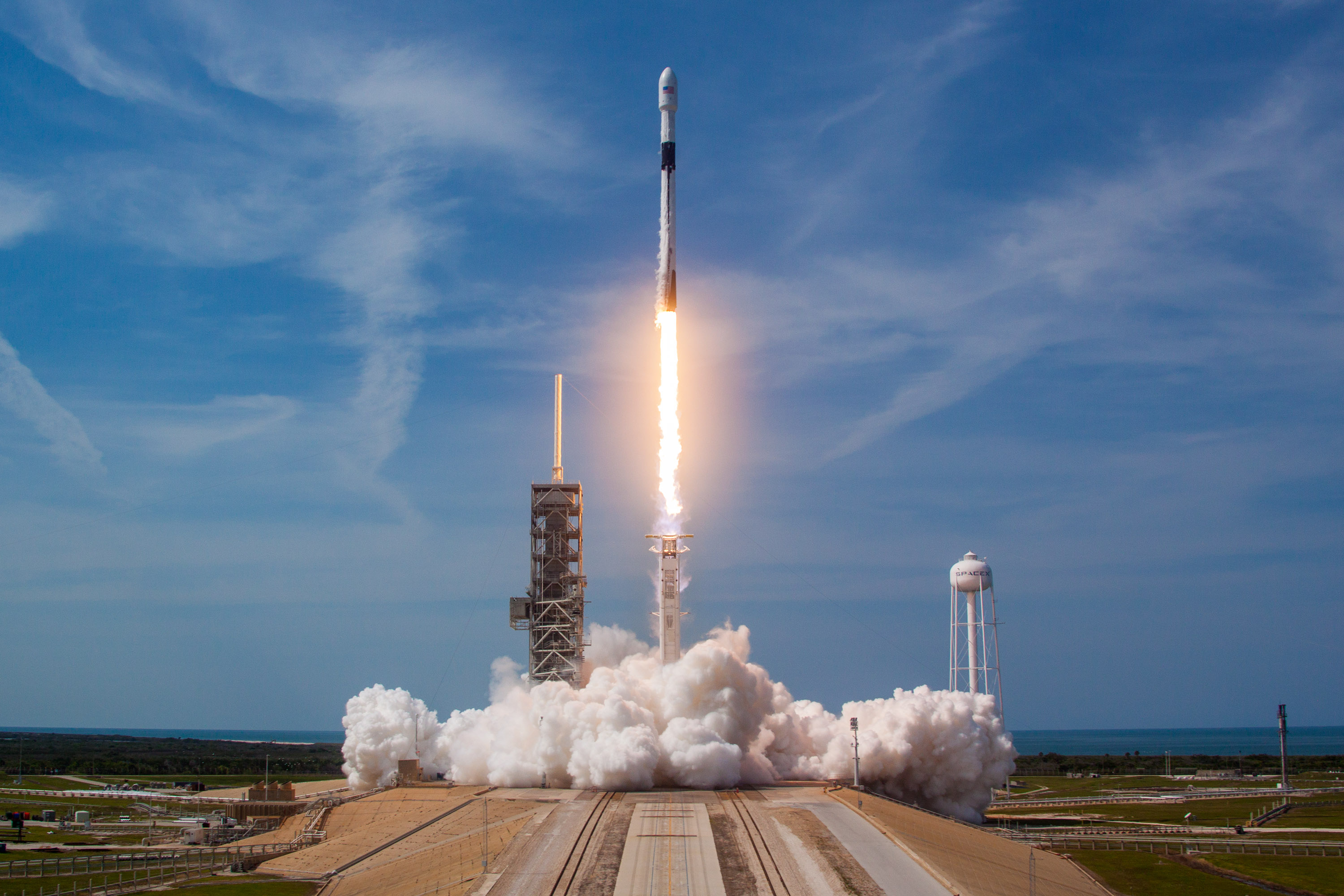 Bangabandhu Satellite-1, is a Bangladeshi communication satellite launched from Kennedy Space Center Launch Complex 39A at 20:14 UTC on May 11, 2018, on a SpaceX Falcon 9 Block 5 launch vehicle. This is the very first satellite from the country. The satellite is to be used for television, telephone, and internet service purposes. For more information, visit